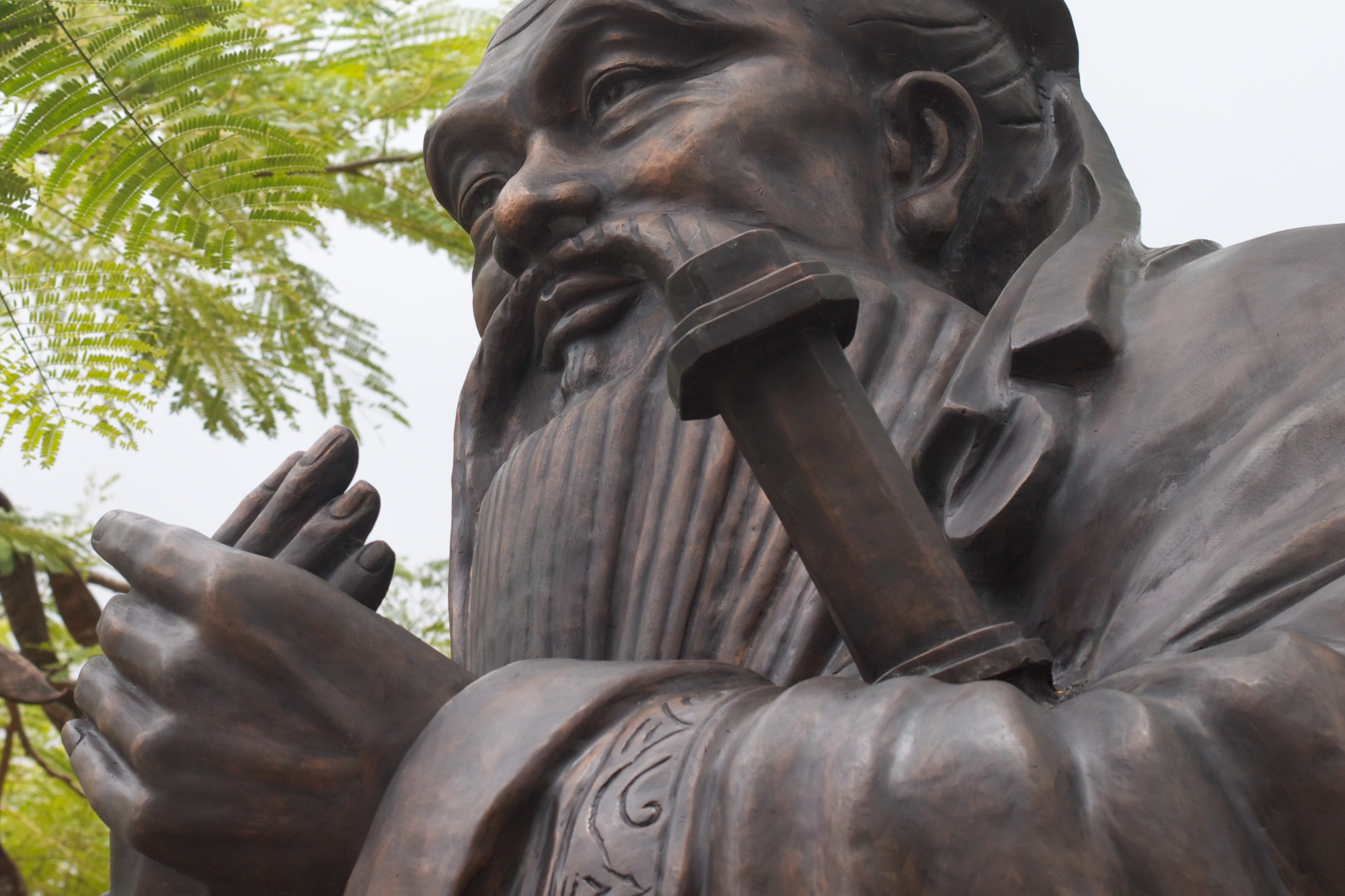 Quiet spot on Southbank